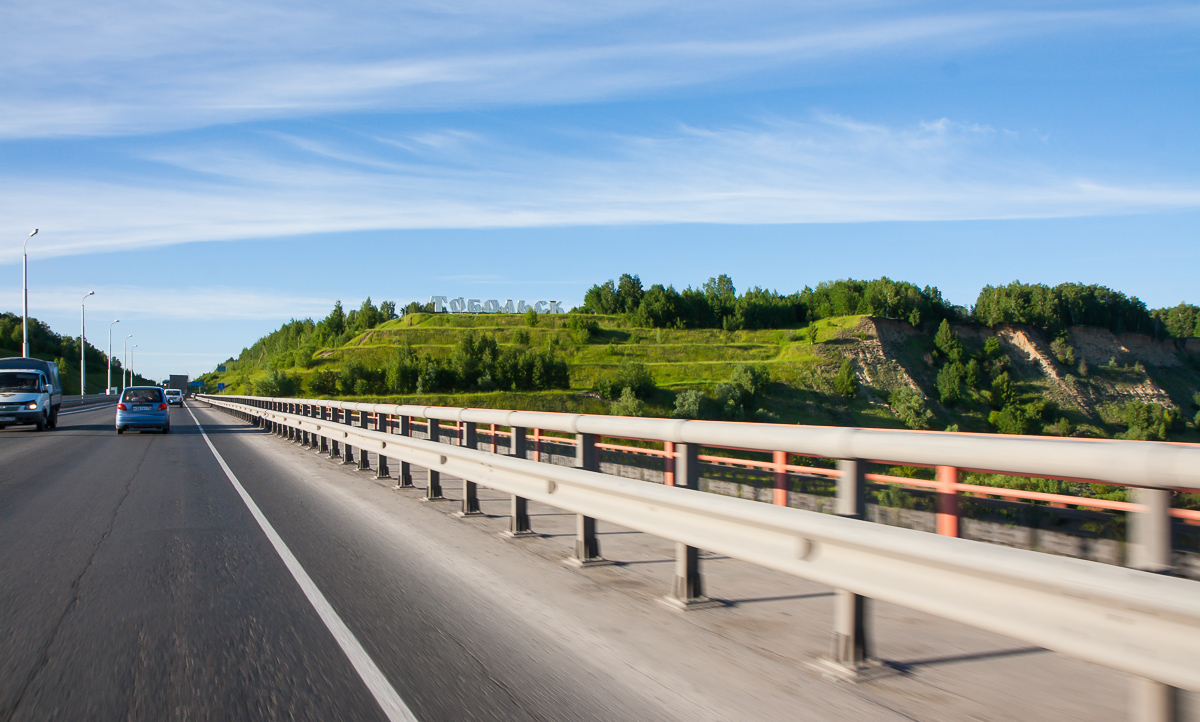 Entrance to Tobolsk, Russia